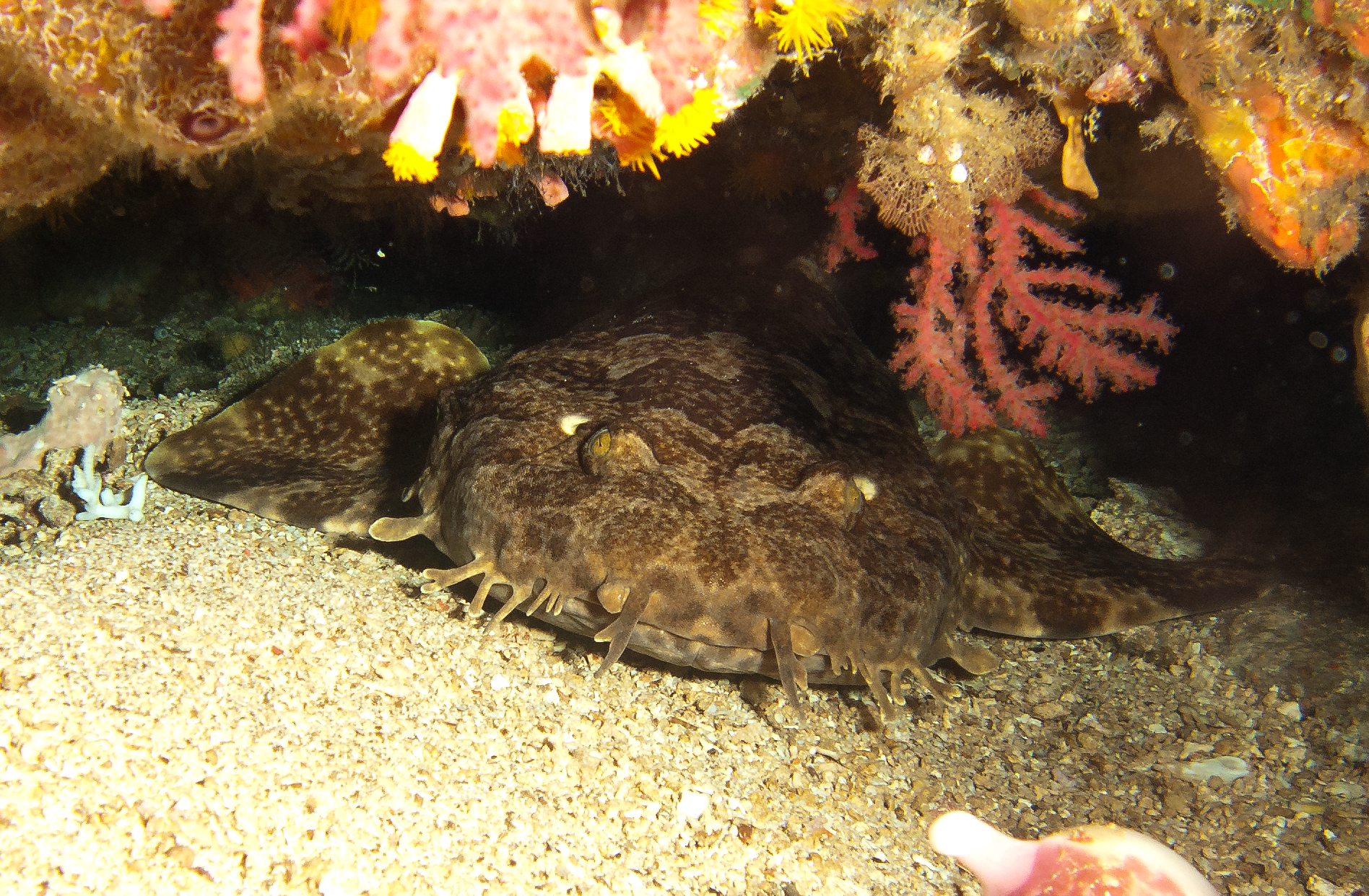 Indonesian wobbegong (Orectolobus leptolineatus) off Alor, East Nusa Tenggara